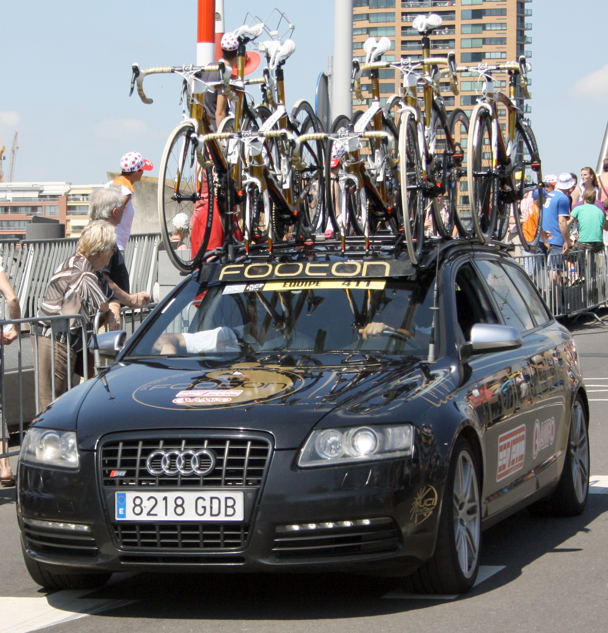 Footon team car at the start of the first stage of the 2010 Tour de France in Rotterdam